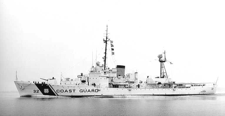 The U.S. Coast Guard cutter USCGC Campbell (WHEC-32) underway.